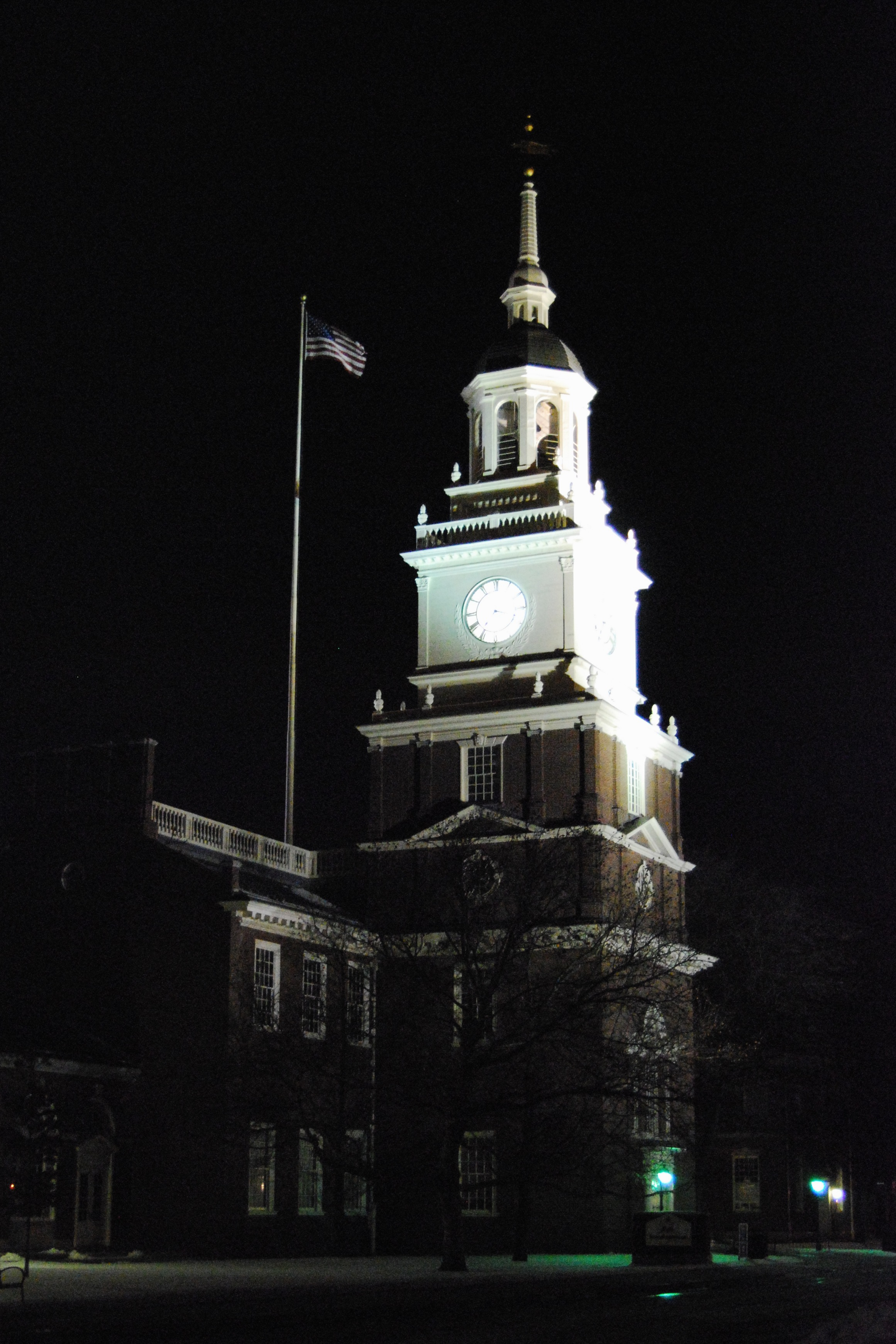 The Henry Ford Museum Clock Tower, at night; Dearborn.